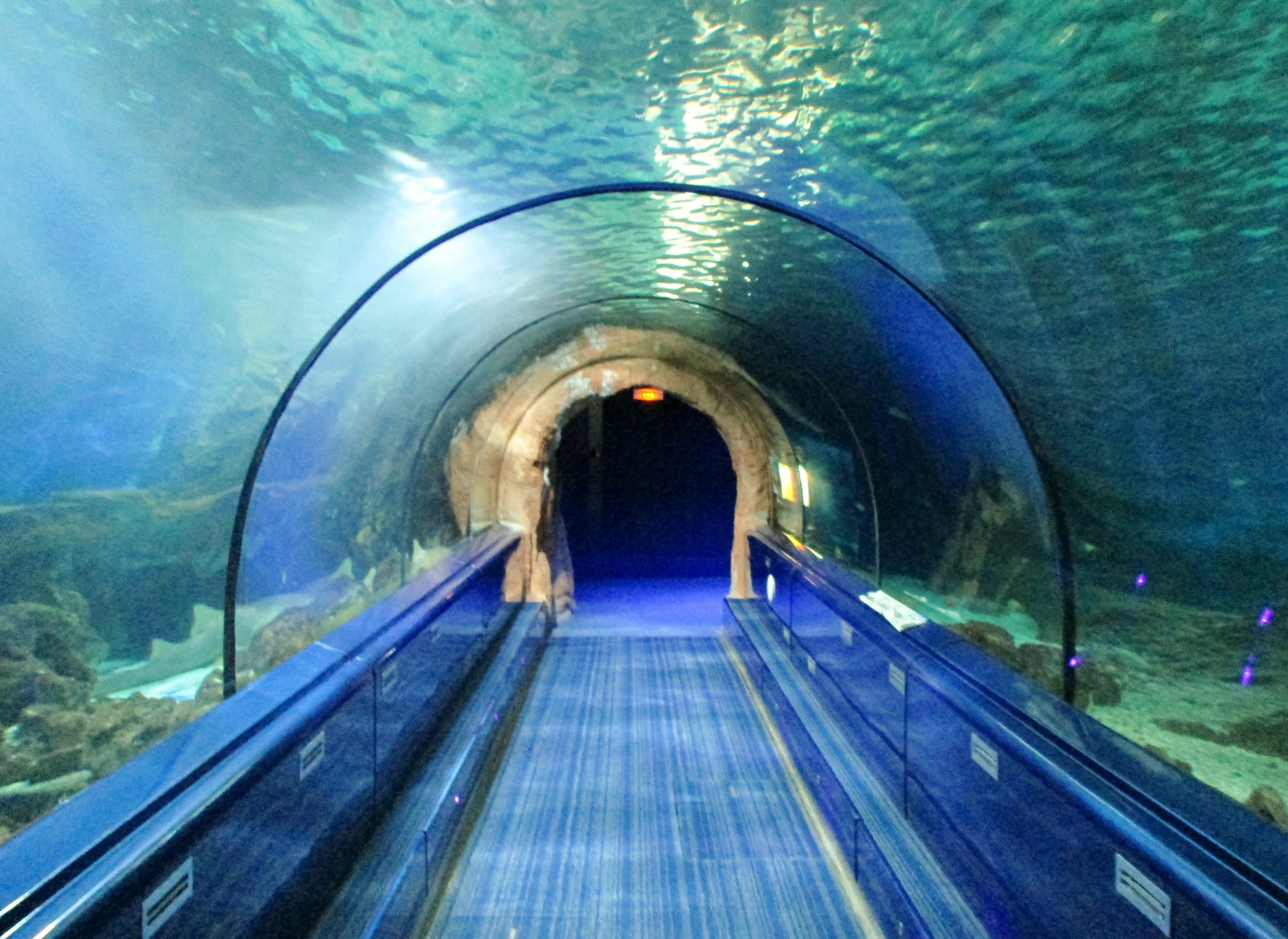 The Tunnel of Sharks Acquarium at Marineland of Antibes FRANCE